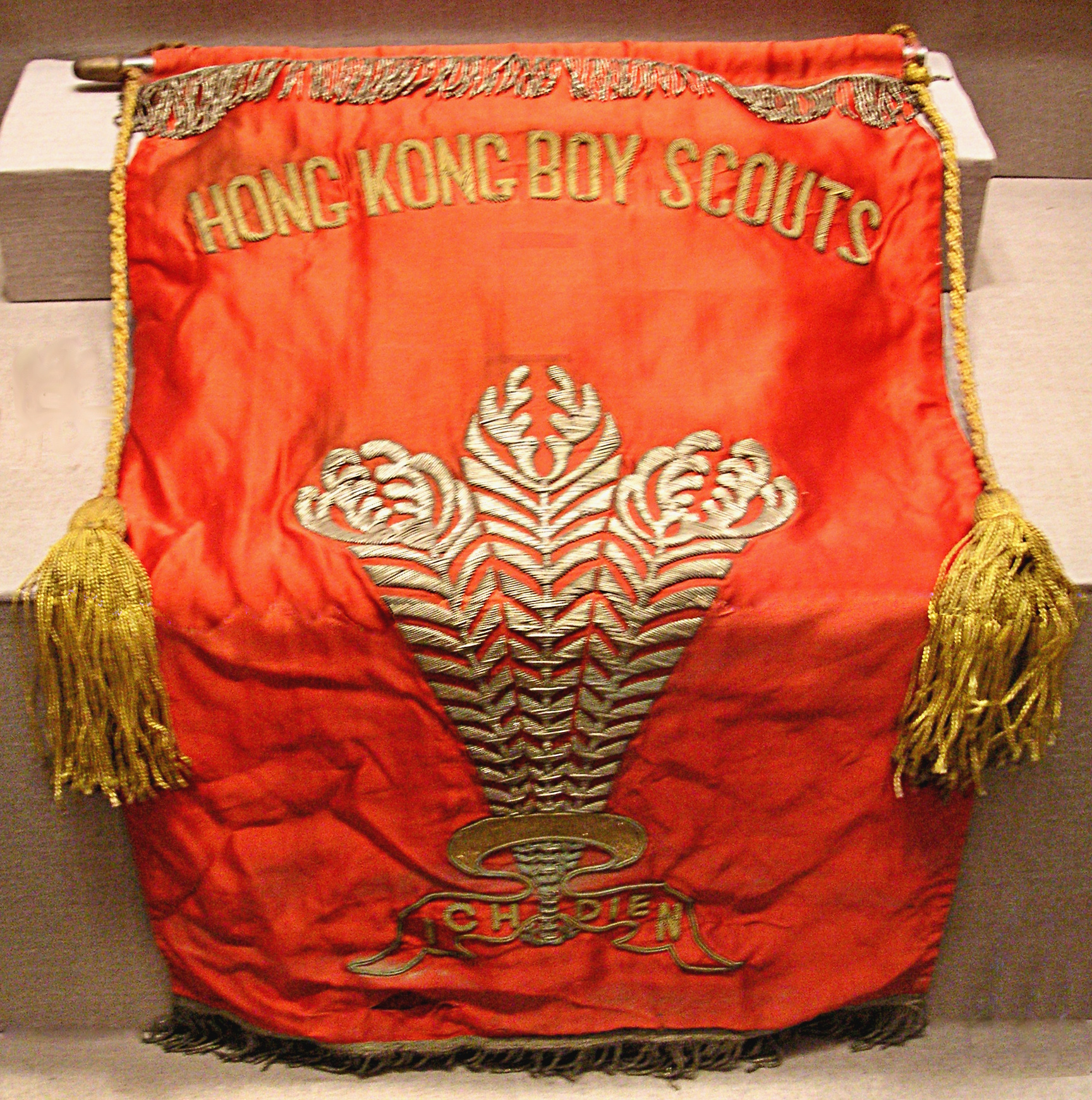 The 3rd issue of Prince of Wales Banner for competition in 1960s. Now in the Headquarters of the Scout Association of Hong Kong Photograph by User:HenryLi